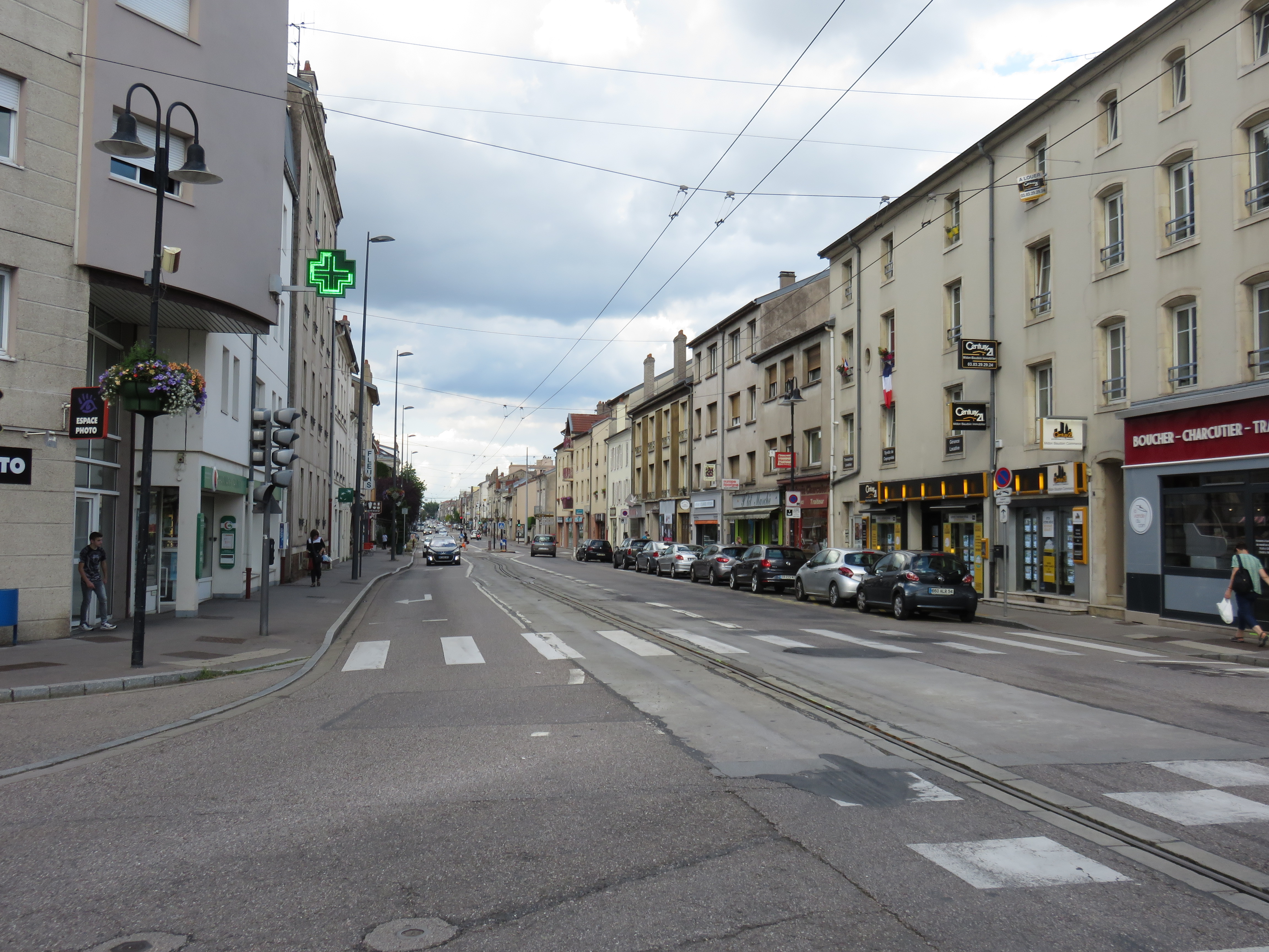 Avenue Carnot in Saint-Max, France in 2018